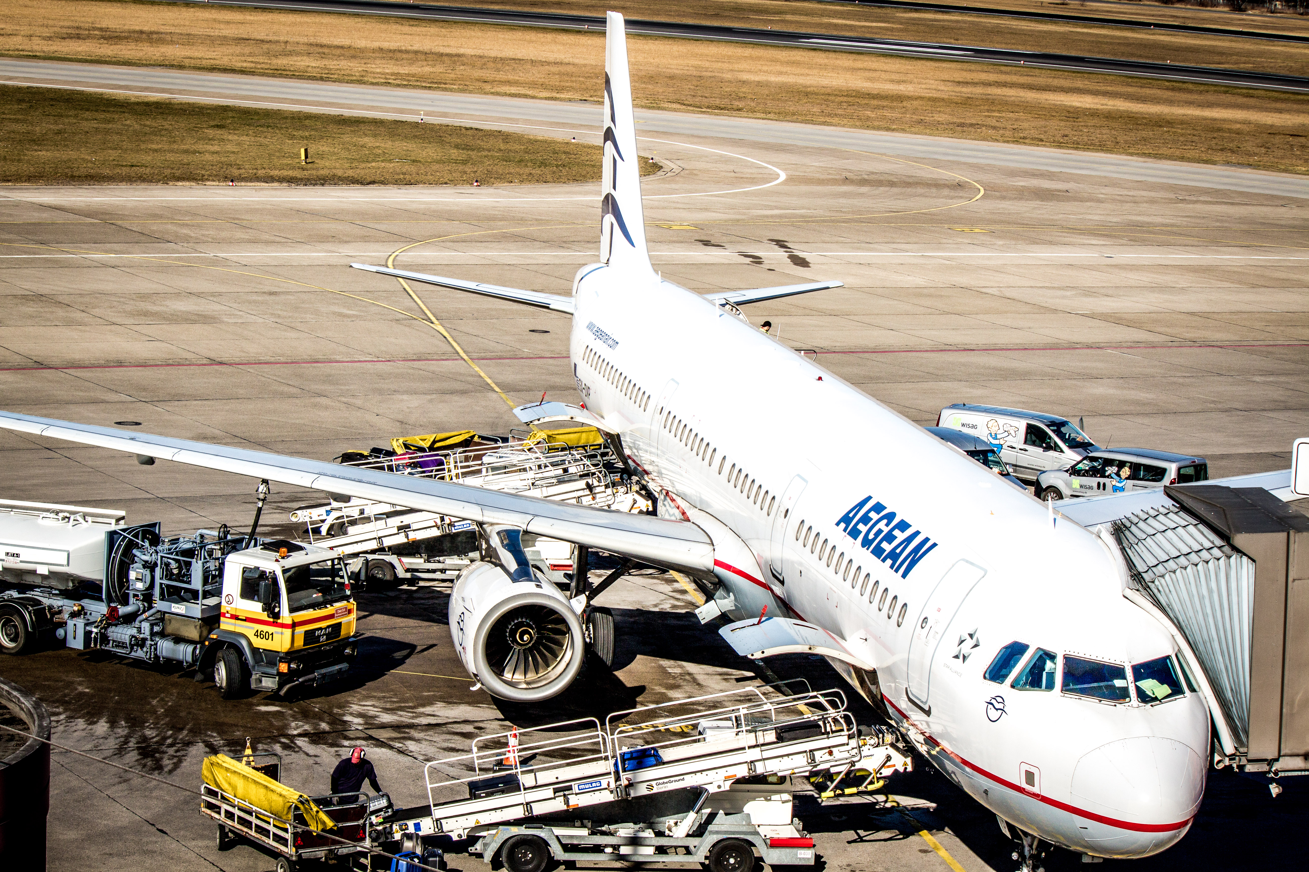 Airport ground operations at Berlin Tegel